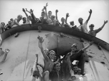 AWM Caption: ALEXANDRIA, EGYPT, 1940-07-22. CREW MEMBERS OF HMAS SYDNEY WAVE GREETINGS FROM THE TOP OF AND A SHELL HOLE IN ONE OF THE SHIP'S FUNNELS. THE SAILOR FIFTH FROM THE LEFT IN THE TOP GROUP IS LEADING STOKER THOMAS NEVIN GLACKIN.